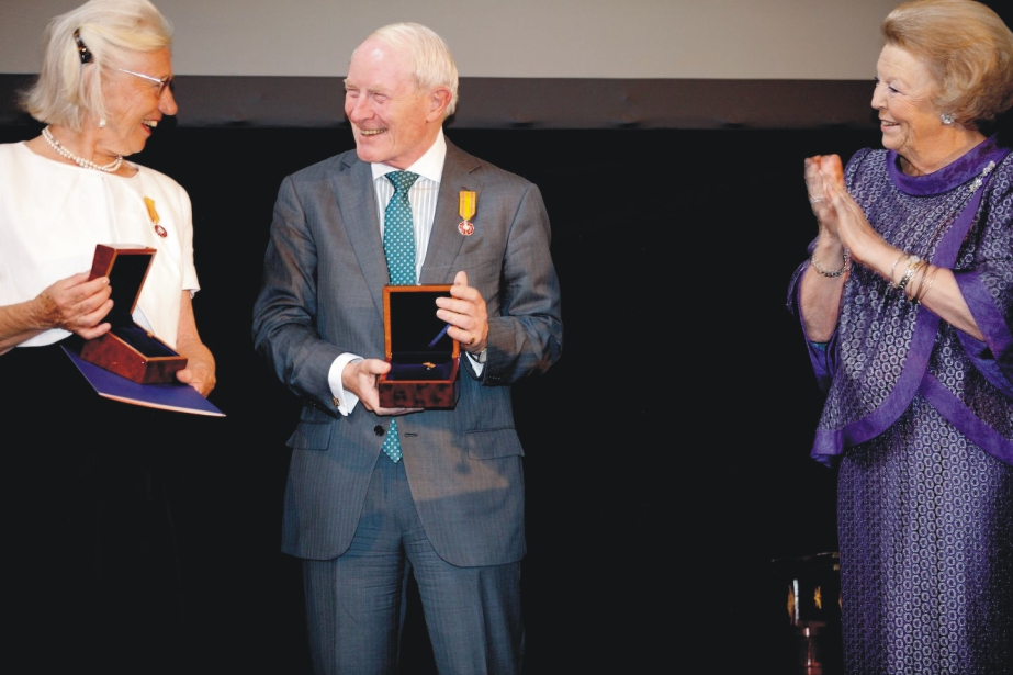 Neeltje van der Ven-Blonk, Clemens van der Ven and Queen Beatrix of the Netherlands remitting the Silver Carnation (Zilveren Anjer) the top cultural award in the Netherlands 2012.